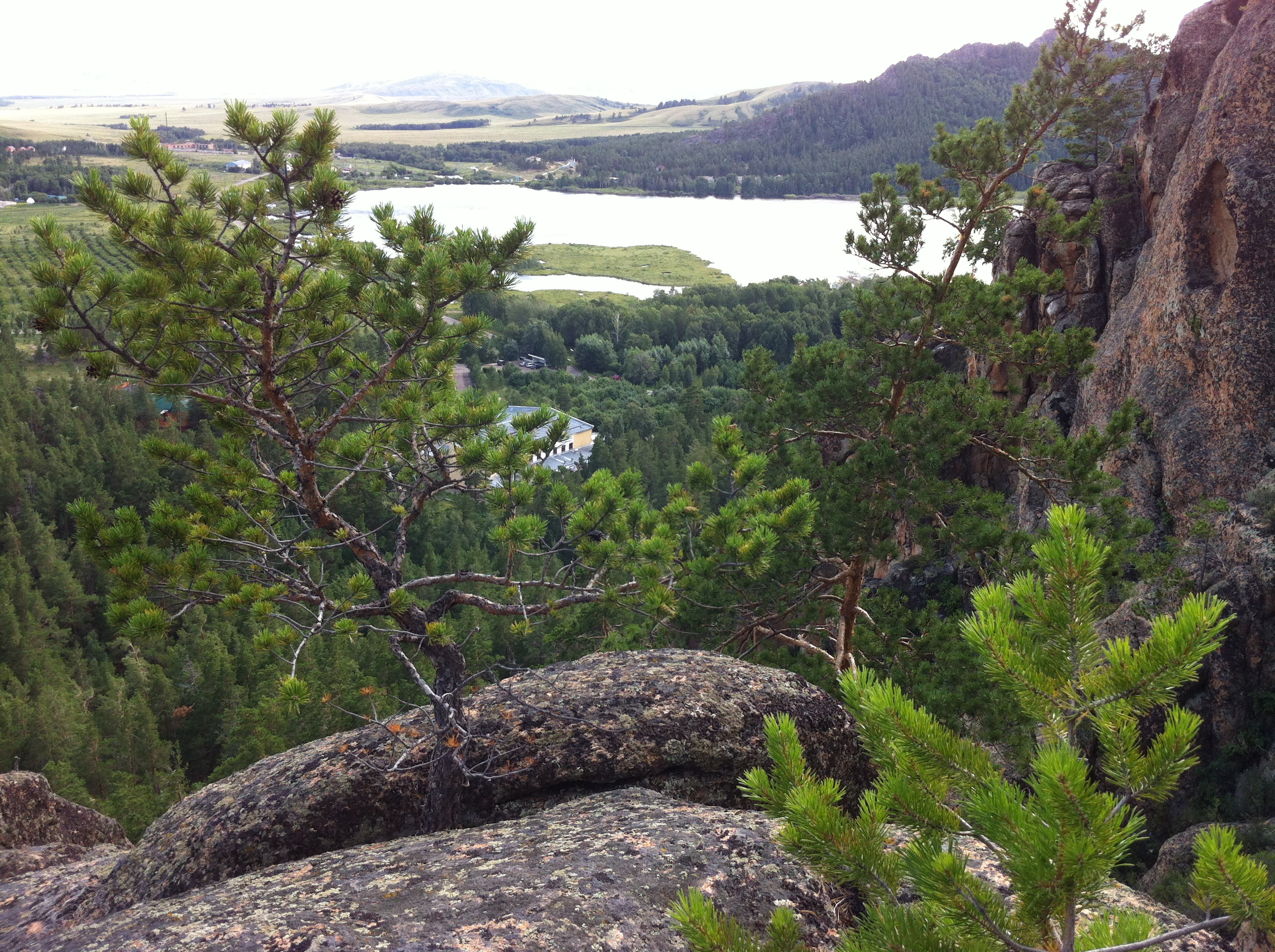 Lake Samal, Qarqaraly